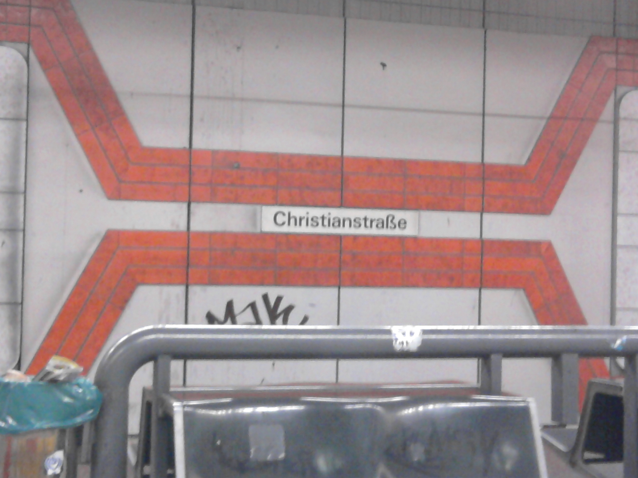 Underground station Von-Bock-Straße in Mülheim (Ruhr)